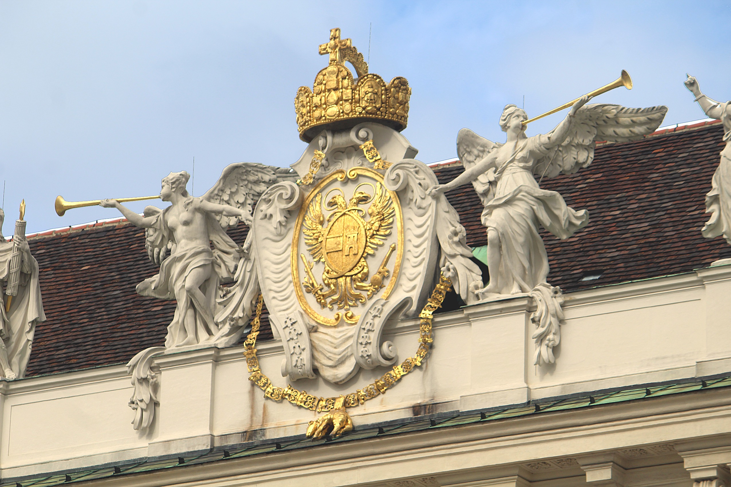 Vienna-City, Hofburg, wing for the imperial chancery, the attic